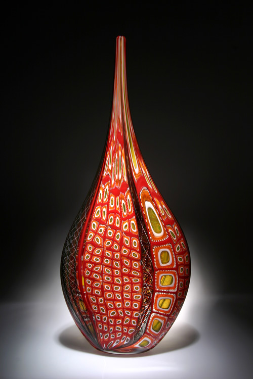 Work and image property David Patchen.